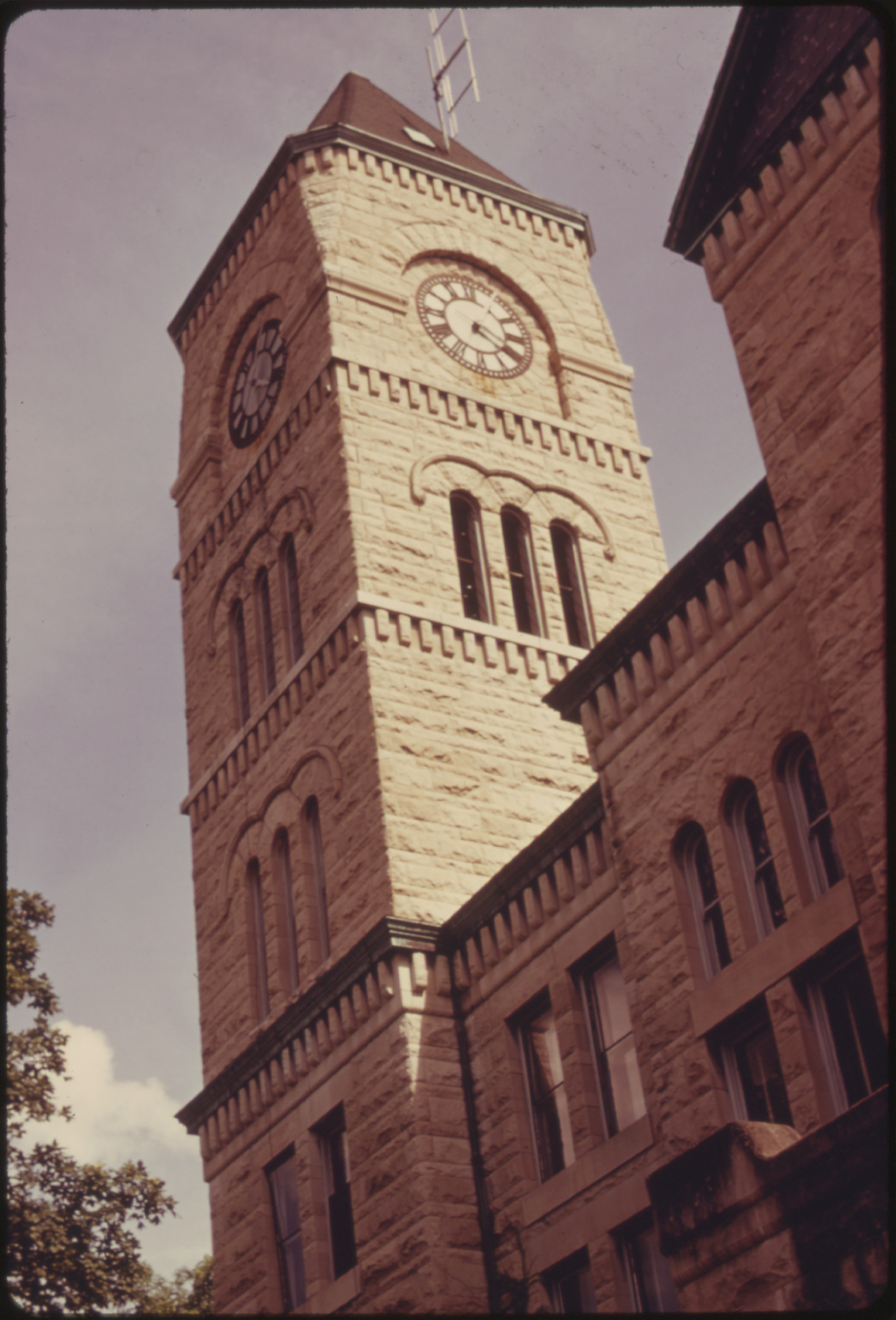 Atchison County Courthouse and Clock Tower in the County Seat of Atchison, Kansas. The Native Limestone Building Is a Good Example of Late 19th Century "Municipal" Architecture 06/1974